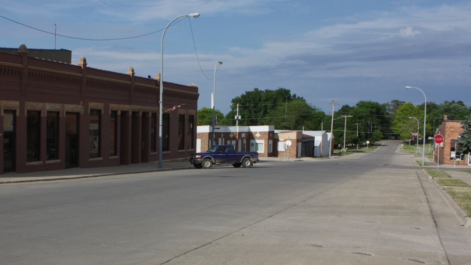 Schaller, Iowa, USA, 2nd St looking east with intersection of Main St at stop sign and State Bank of Schaller on left